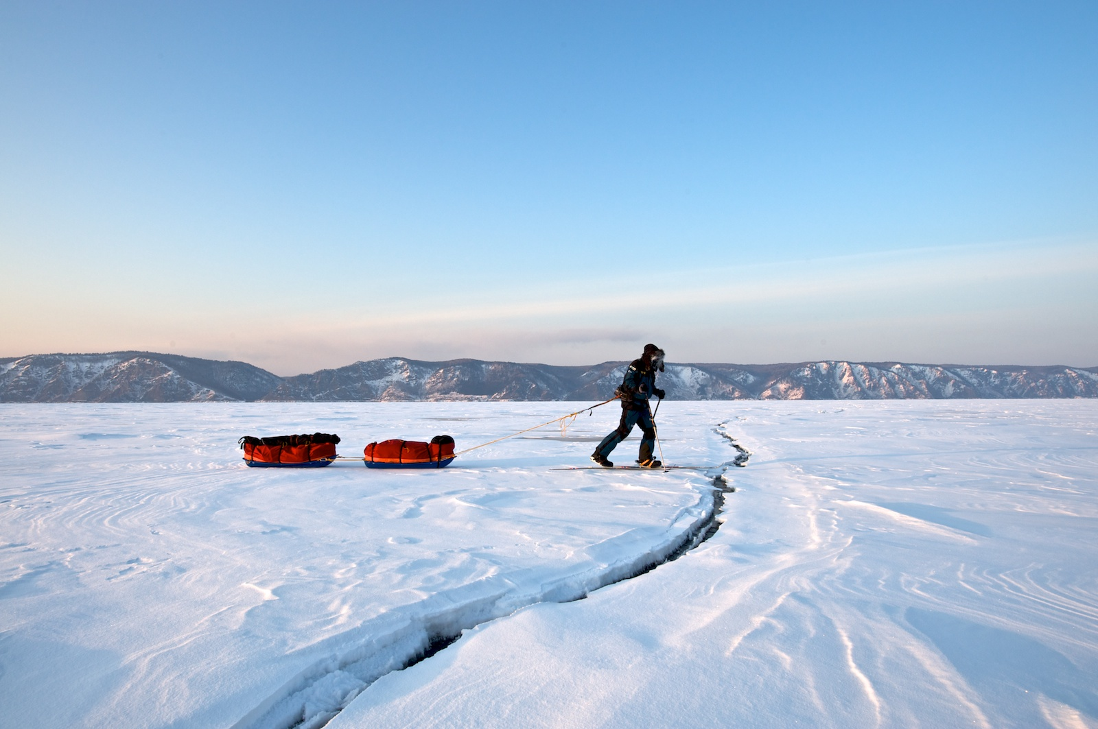 The Czech expedition Bergans Baikal 2010 with an aim to cross the lake Baikal lengthwise took place in February and March 2010. This picture depicts a member of the team, Vaclav Sura, crossing a crack in the ice.